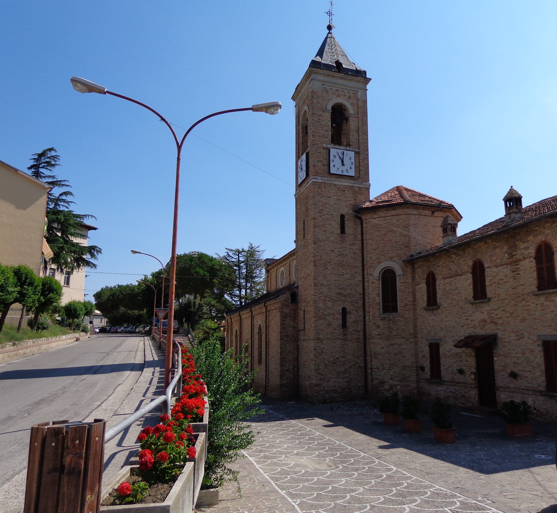 S.S. Cosma and Damiano Church in Venarotta